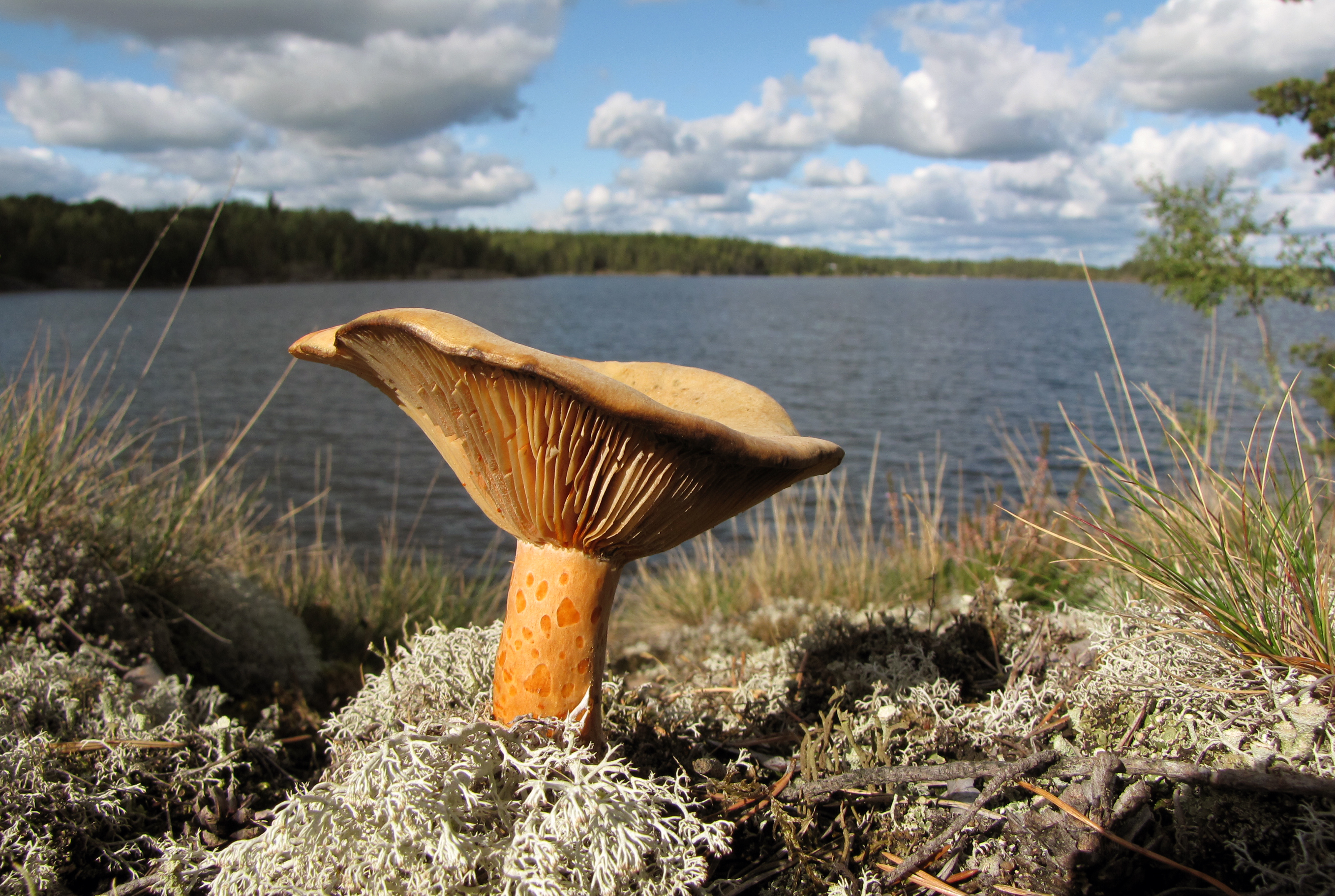 Lactarius deliciosus growing on an islet on Lake Saimaa, Finland.